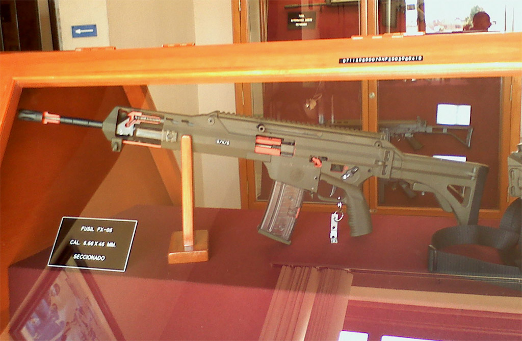 Cutaway of a Mexican FX-05 assault rifle in the SEDENA museum in Mexico City Federal District, Mexico